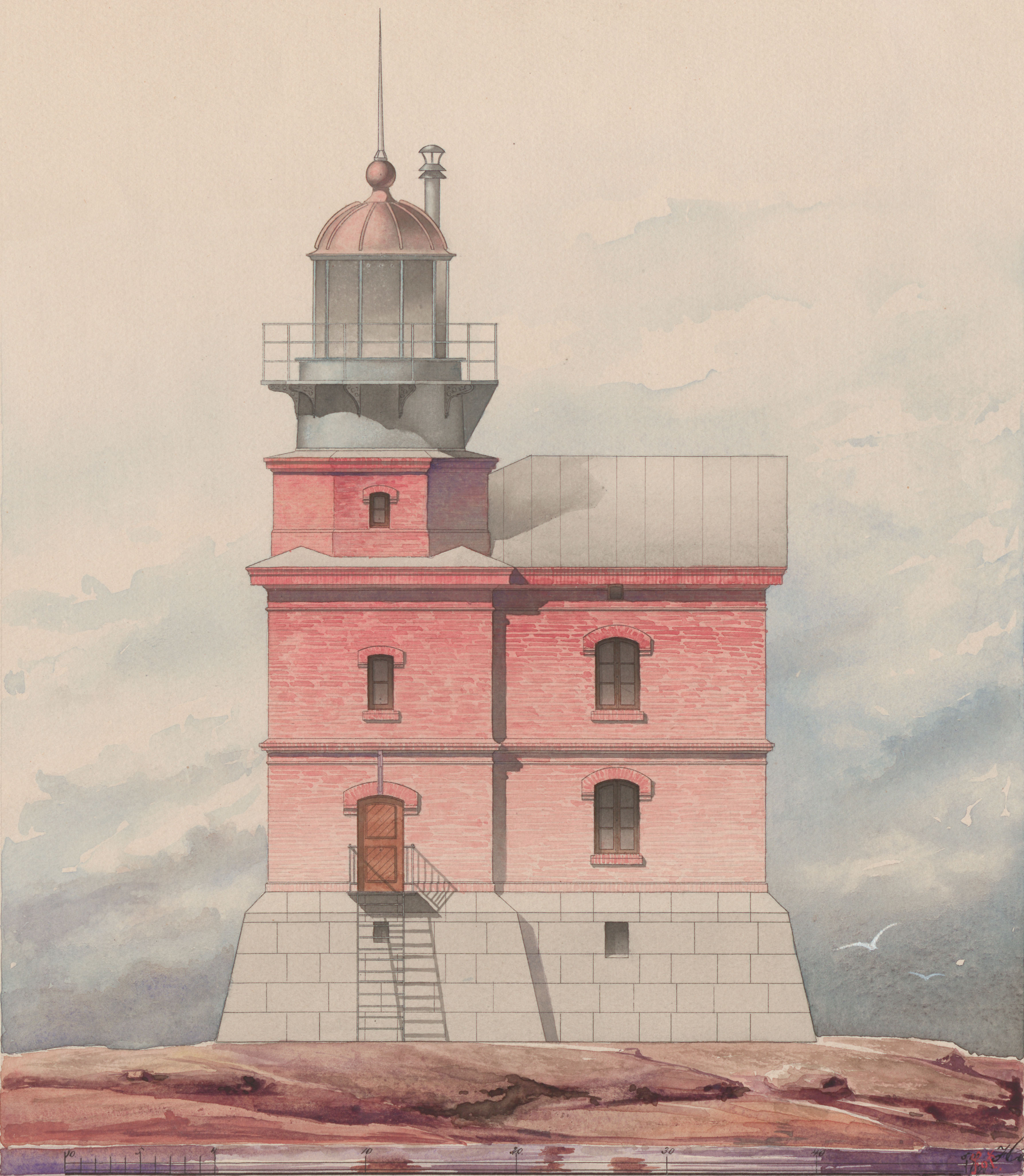 The architectural drawing of the Märket lighthouse in 1884.